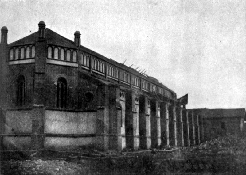 Bishop’s Palace, Mission of Our Lady of M’Pala (Tanganyika) - p. 196